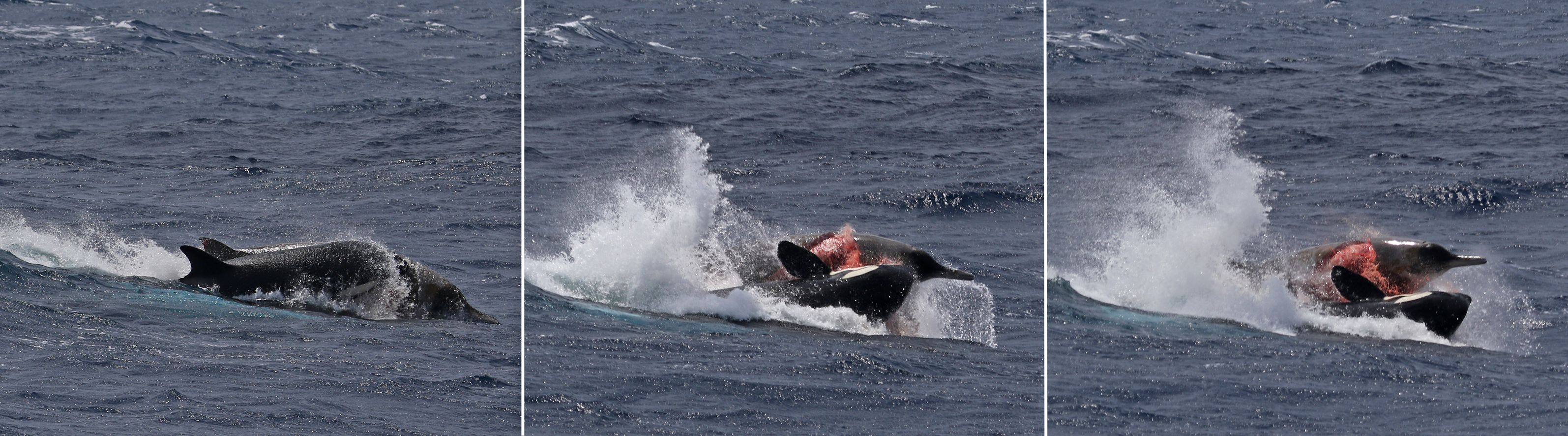 A strap-tooth beaked whale is seen porpoising through the water as a killer whale attacks the right flank, resulting in a large bite wound. Photo credit: Rebecca Wellard, Project ORCA, (